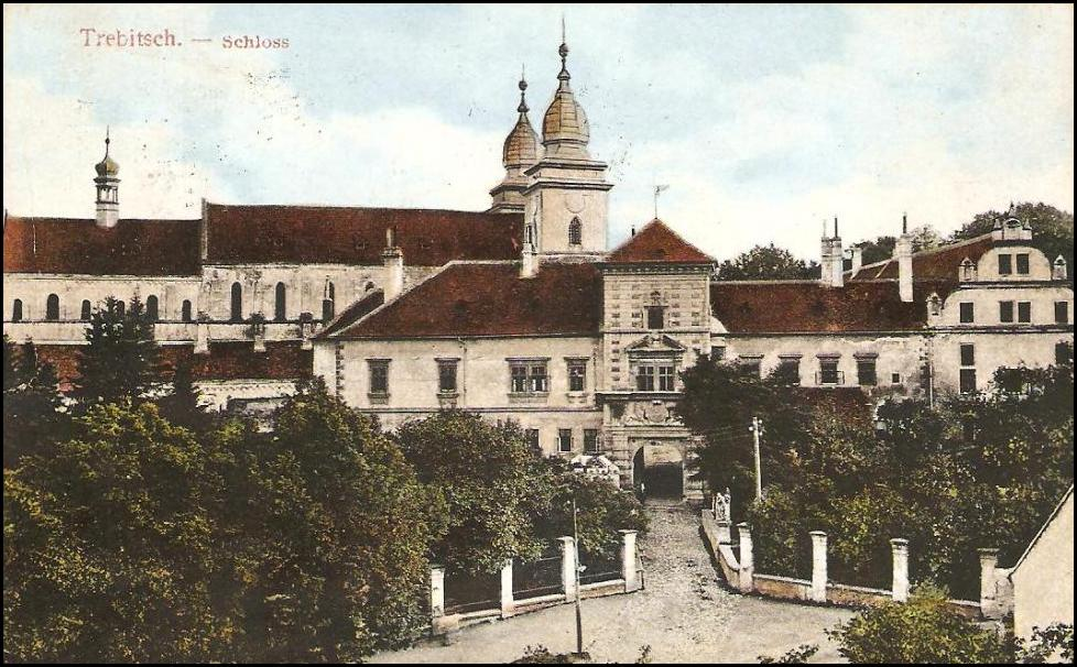 Gate of Třebíč Castle in 1915 in Třebíč, Třebíč District.